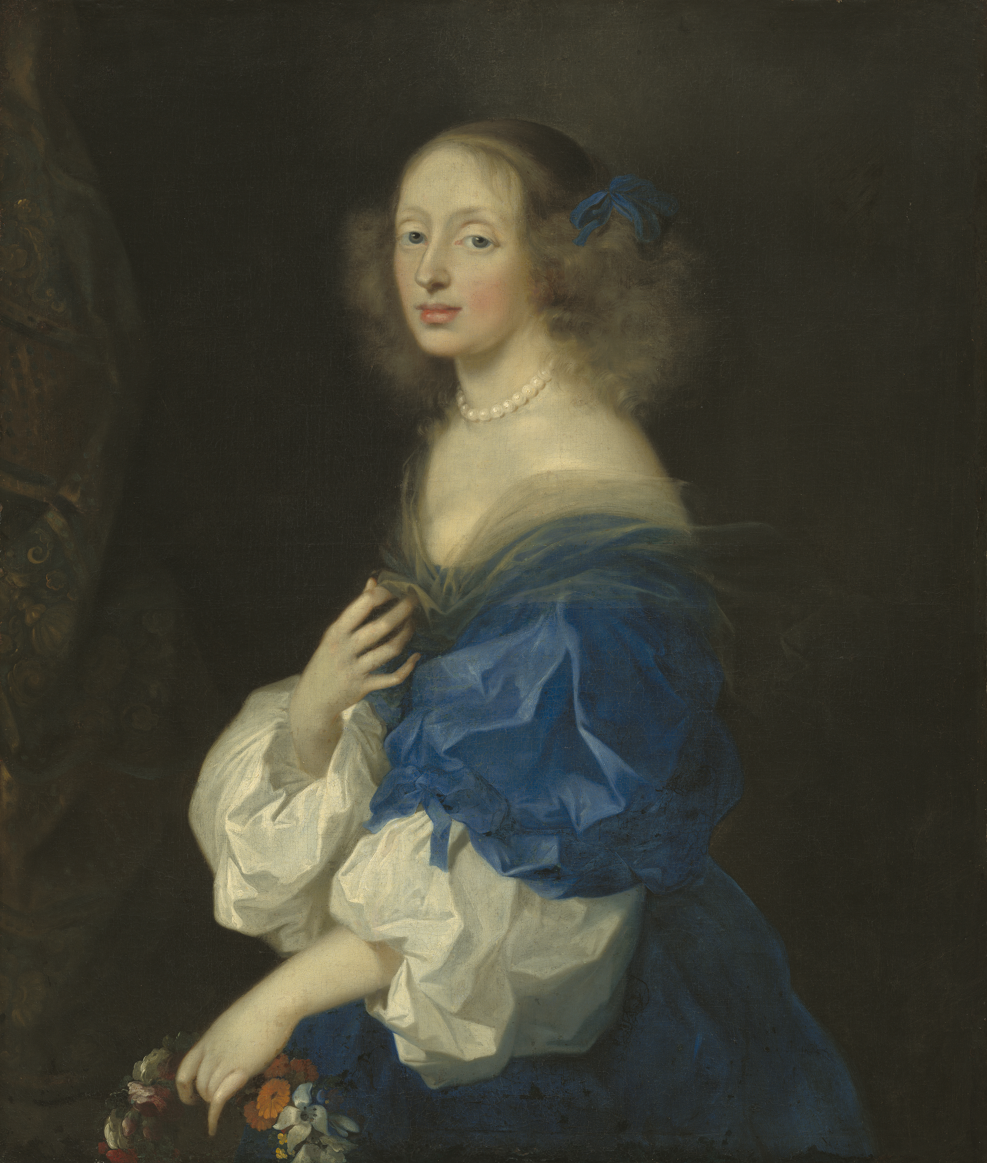 In the painting Countess Ebba Sparre "La belle comtesse" (1626 - 1662), who was a lady-in-waiting to, and intimate companion of, Sweden's Queen Christina Genealogy Baroness Ebba "La belle comtesse", born 1626, died 19 March 1662, buried 19 October 1662 at Stockholm [1] Married 11 January 1653 at Stockholm castle to count Jakob Casimir de la Gardie (born 3 February 1629, shot during the siege of Copenhagen 7 October 1658, buried 24 July 1658 at Riddarholm church, Stockholm) [2] The Descendants of Gustaf I Eriksson, King of Sweden